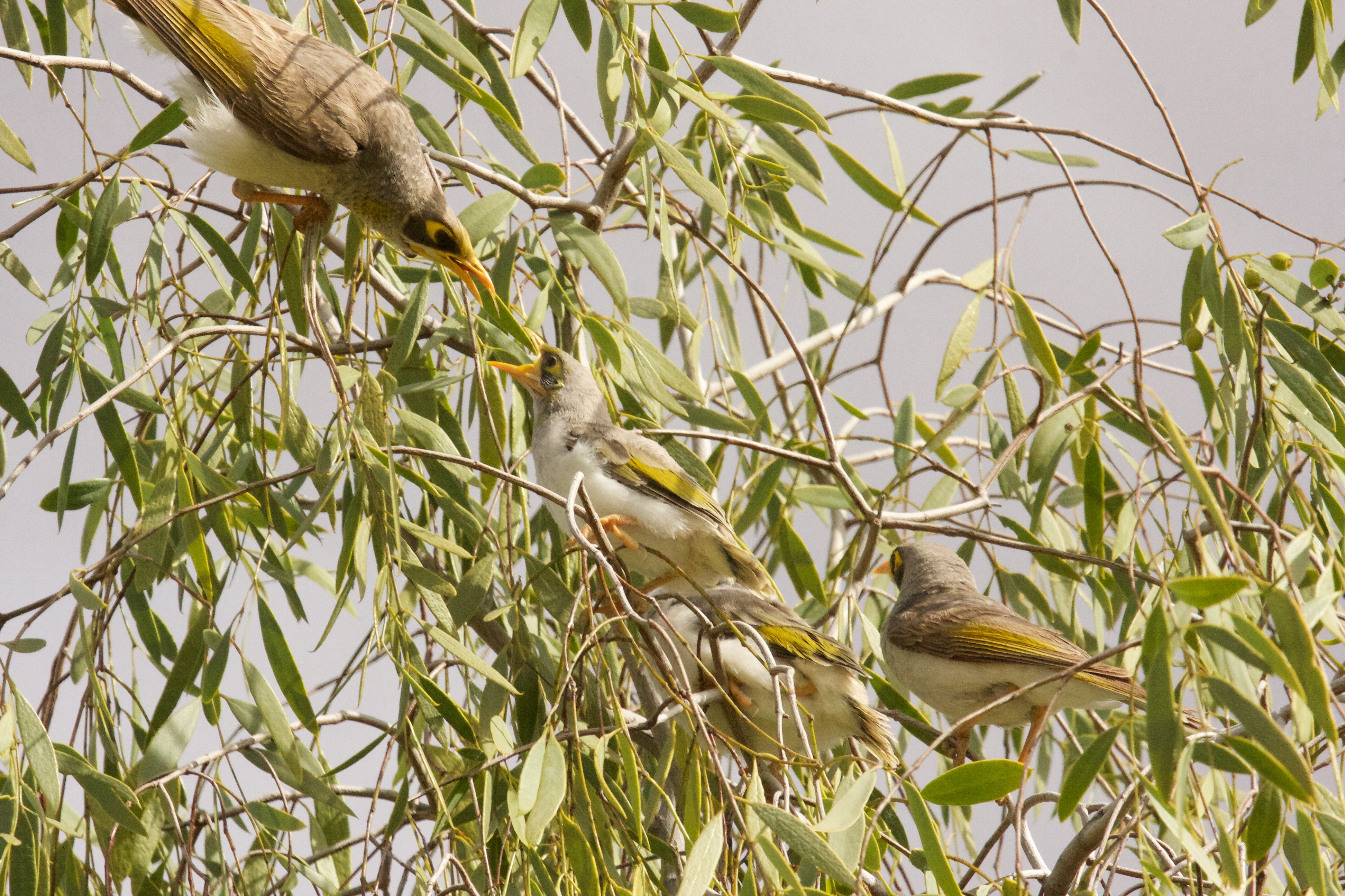 Two yellow-throated miner (Manorina flavigula) fledglings being attended by two adults in the shearer's quarters yard at Kilcowera Station, QLD August 2016.